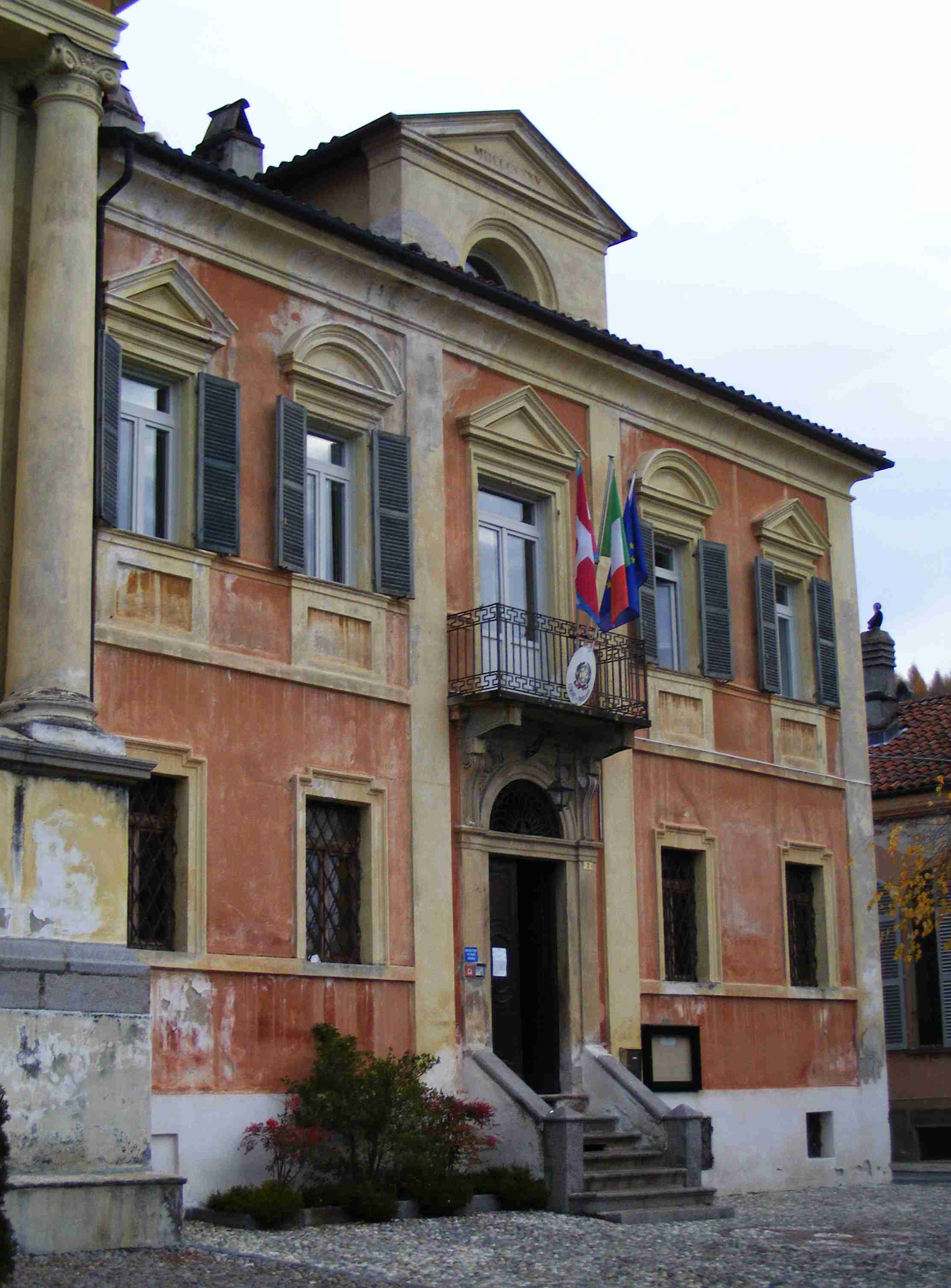 Tavigliano (BI, Italy): the town hall